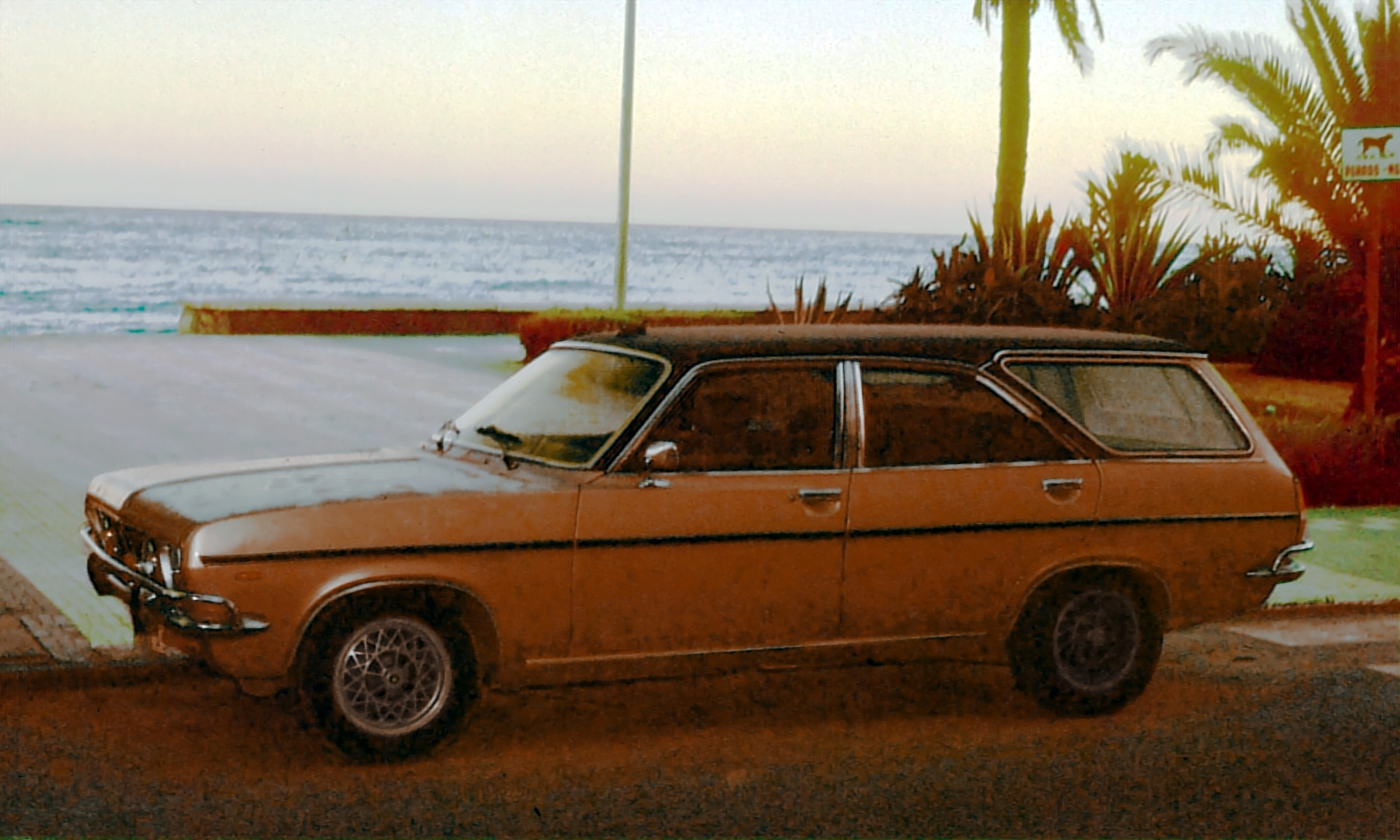 Chrysler 160 or 180 estate on Costa del Sol